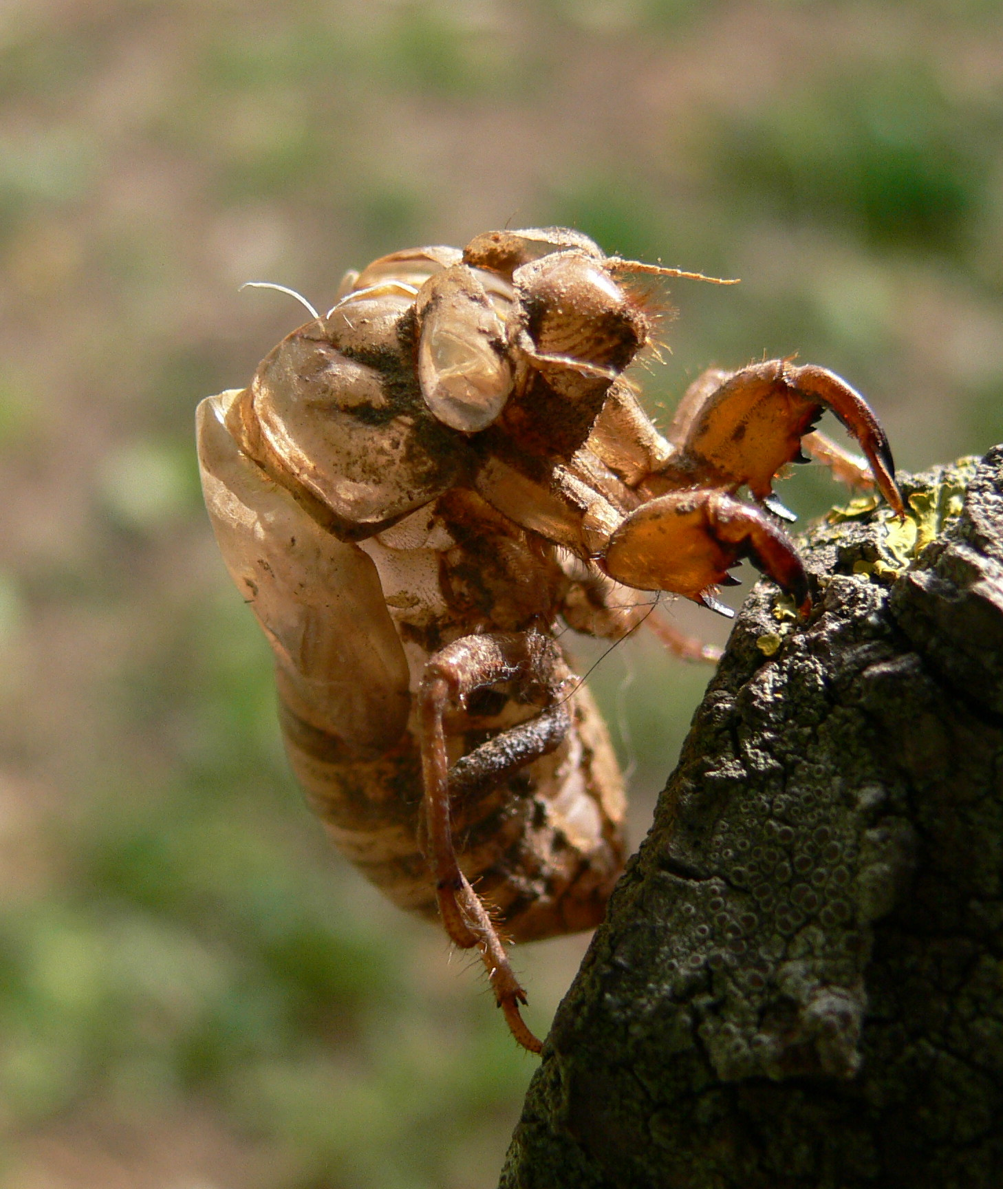 Cicada (Lyristes plebejus (Scopoli 1763), empty moult, Var (France)